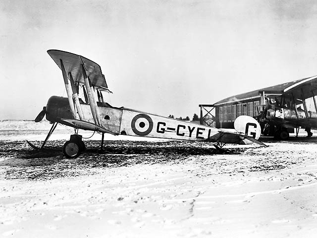 Avro 504